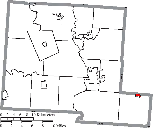 Map of the municipal and township boundaries of Pickaway County, Ohio, United States, as of the 2000 census, with the location of the village of Tarlton highlighted. Township borders are shown only in unincorporated areas in order to differentiate incorporated and unincorporated areas more clearly.